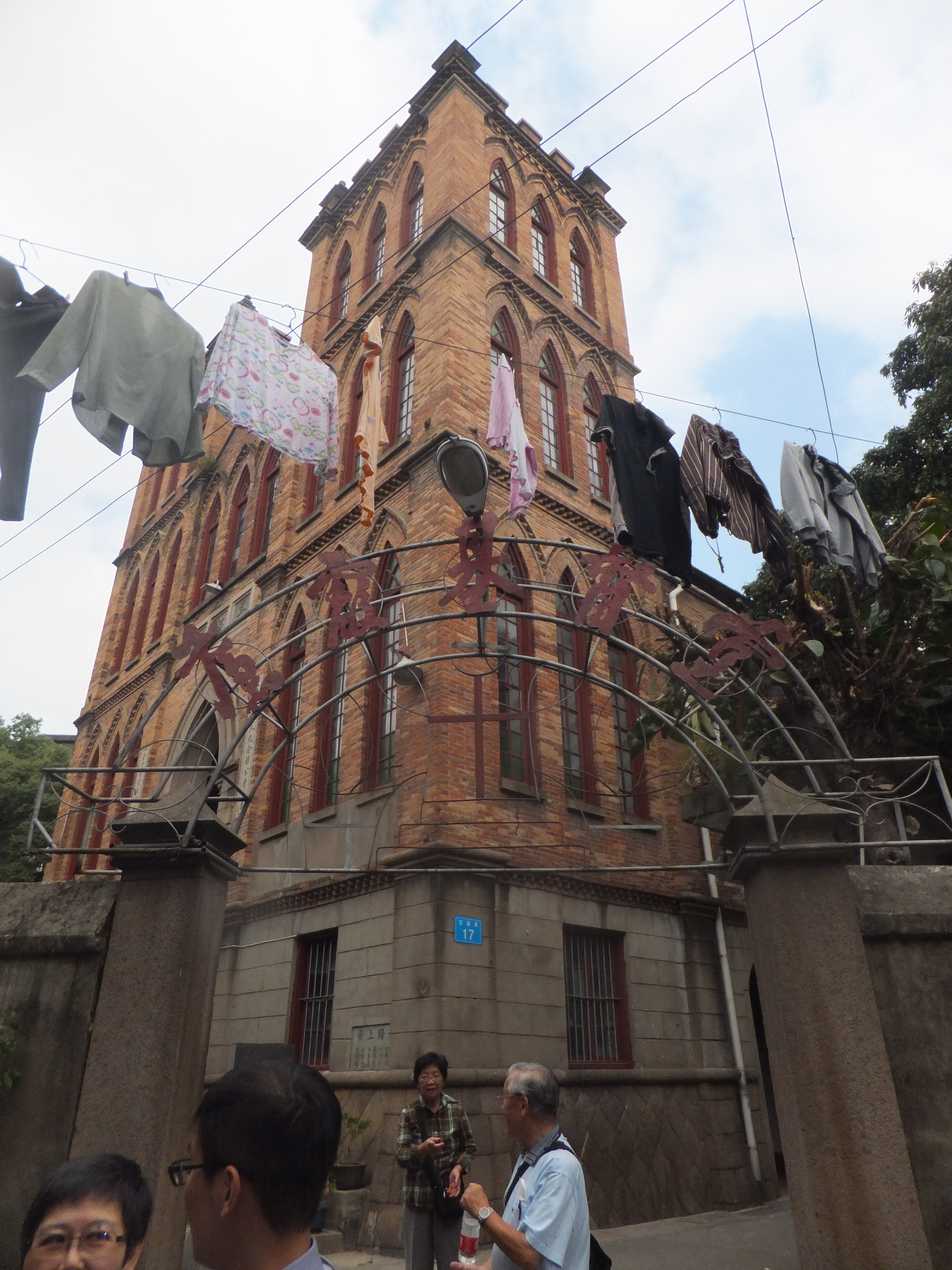 Christ Church Cathedral, also known as Cangxia Church, Fuzhou, China